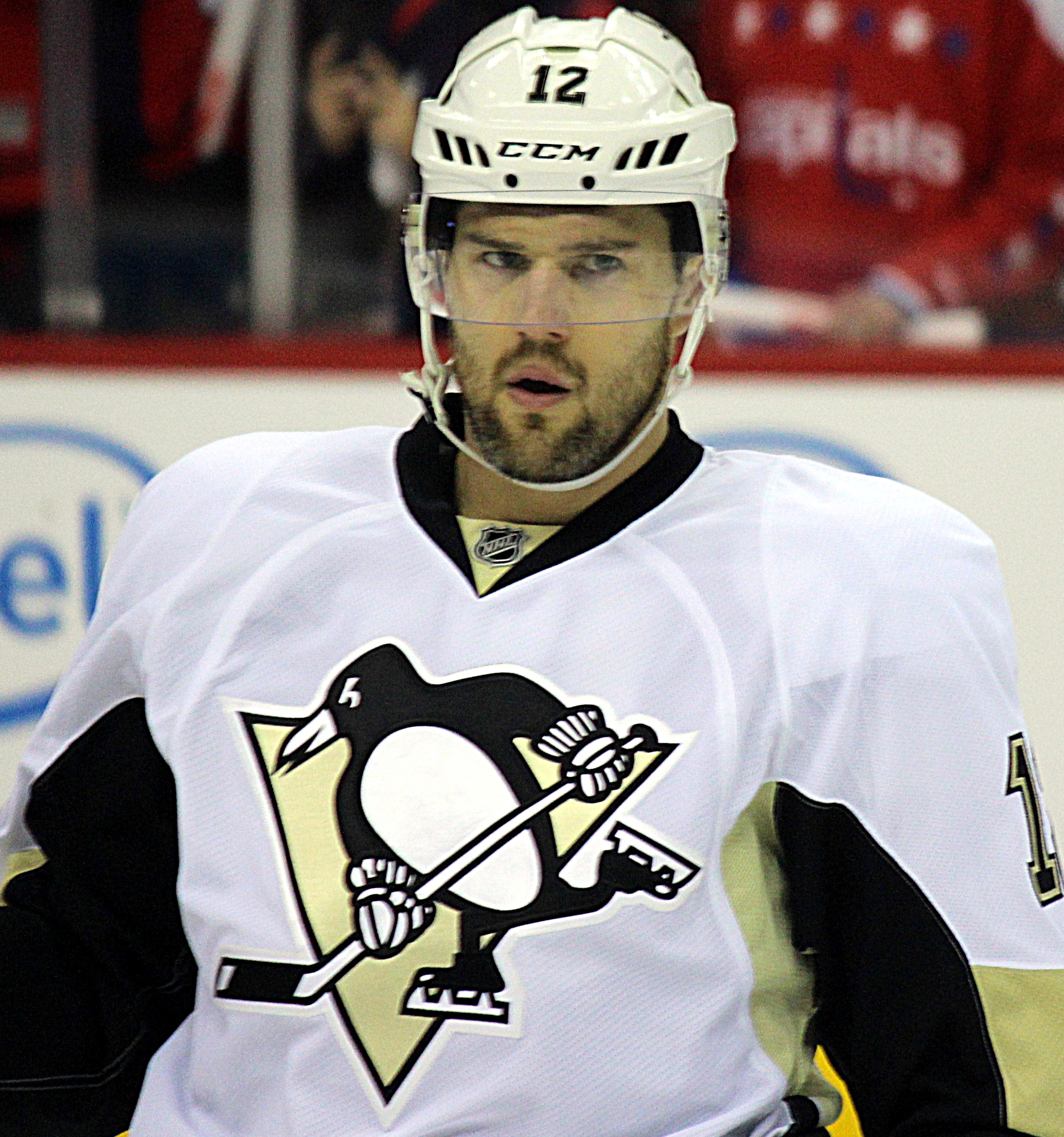 Pittsburgh Penguins defenseman Ben Lovejoy during a playoff game against the Washington Capitals, Thursday, April 28, 2016 at Verizon Center in Washington, D.C.